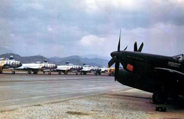 The flightline at Itazuke Air Base, Japan, 1950. The F-82 in the foreground belongs to the 69th All Weather Fighter Squadron, and the F-80s are assigned to the 8th Fighter-Bomber Group. (U.S. Air Force photo)